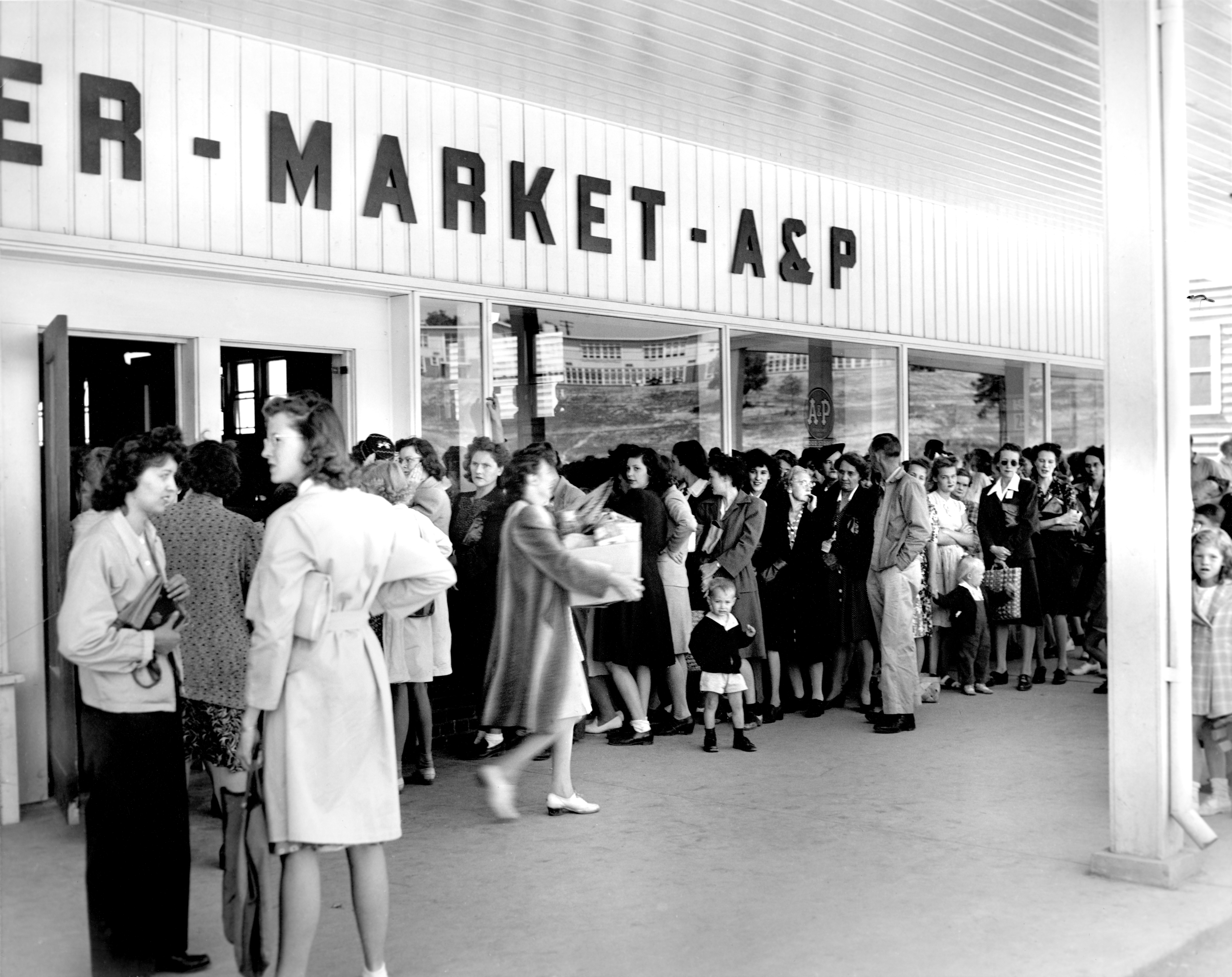 Pro23 DOE photo Ed Westcott 9-6-1944 Oak Ridge Tennessee